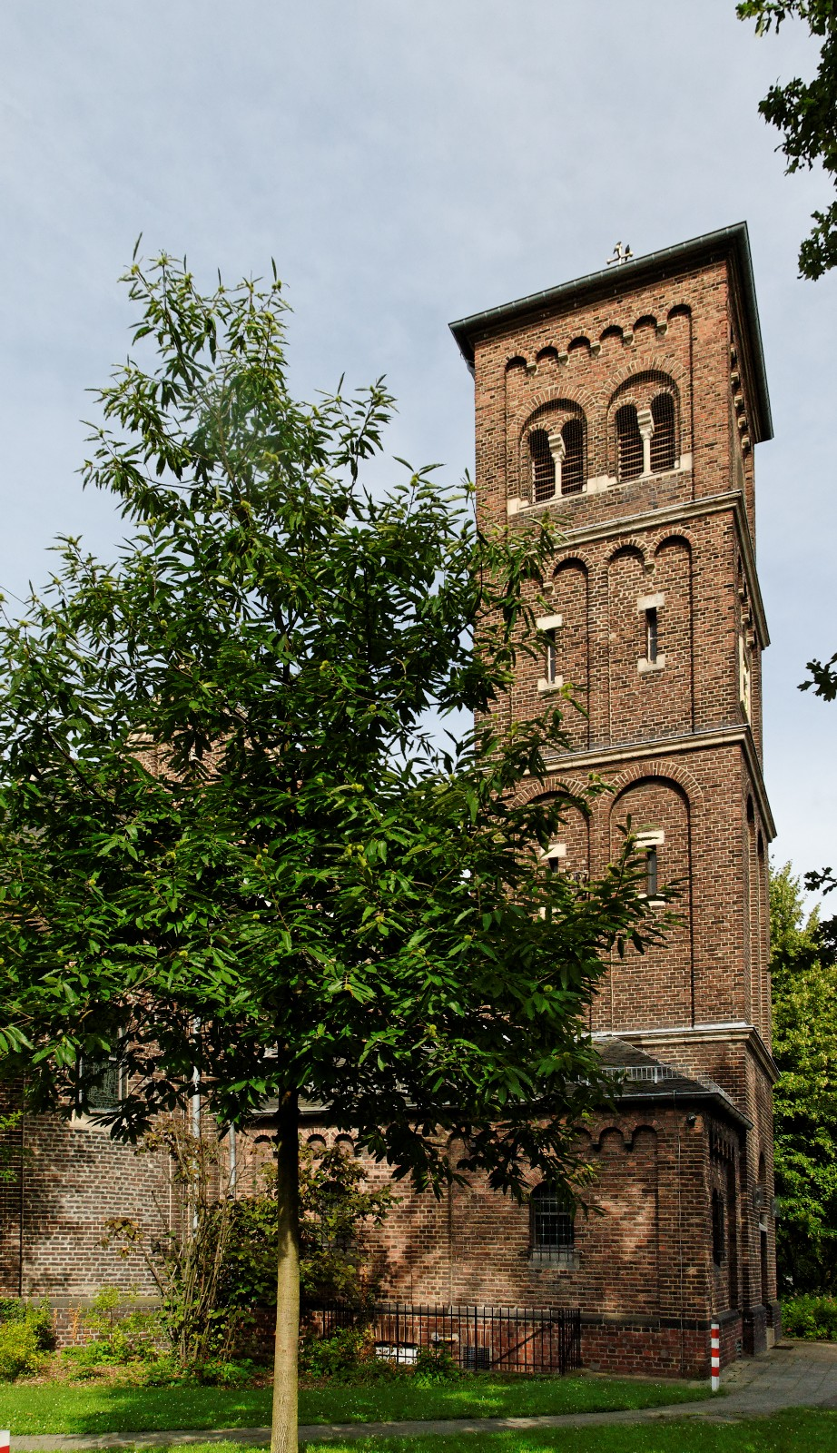 Assumption Church in Düsseldorf-Lohausen, Germany